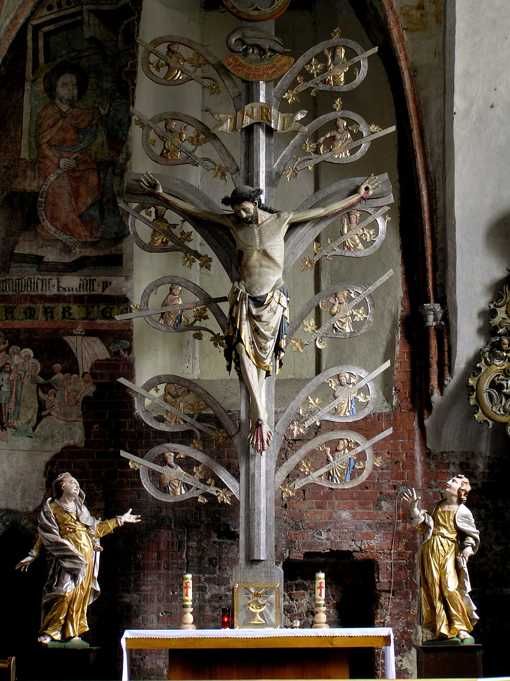 Toruń, St. James church, gothic crucifix, so-called "Mistical Crucufix" from Dominican's church in Toruń (end of 14th cent.).